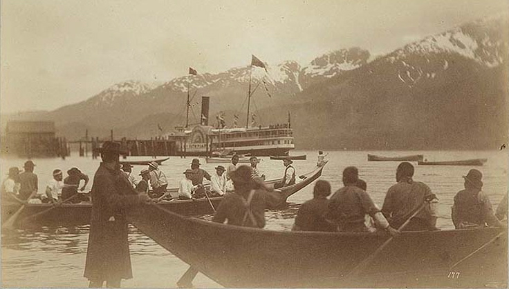 Juneau, Alaska, 1887, Tlingit people in foreground, with sidewheeler Olympian, in background.